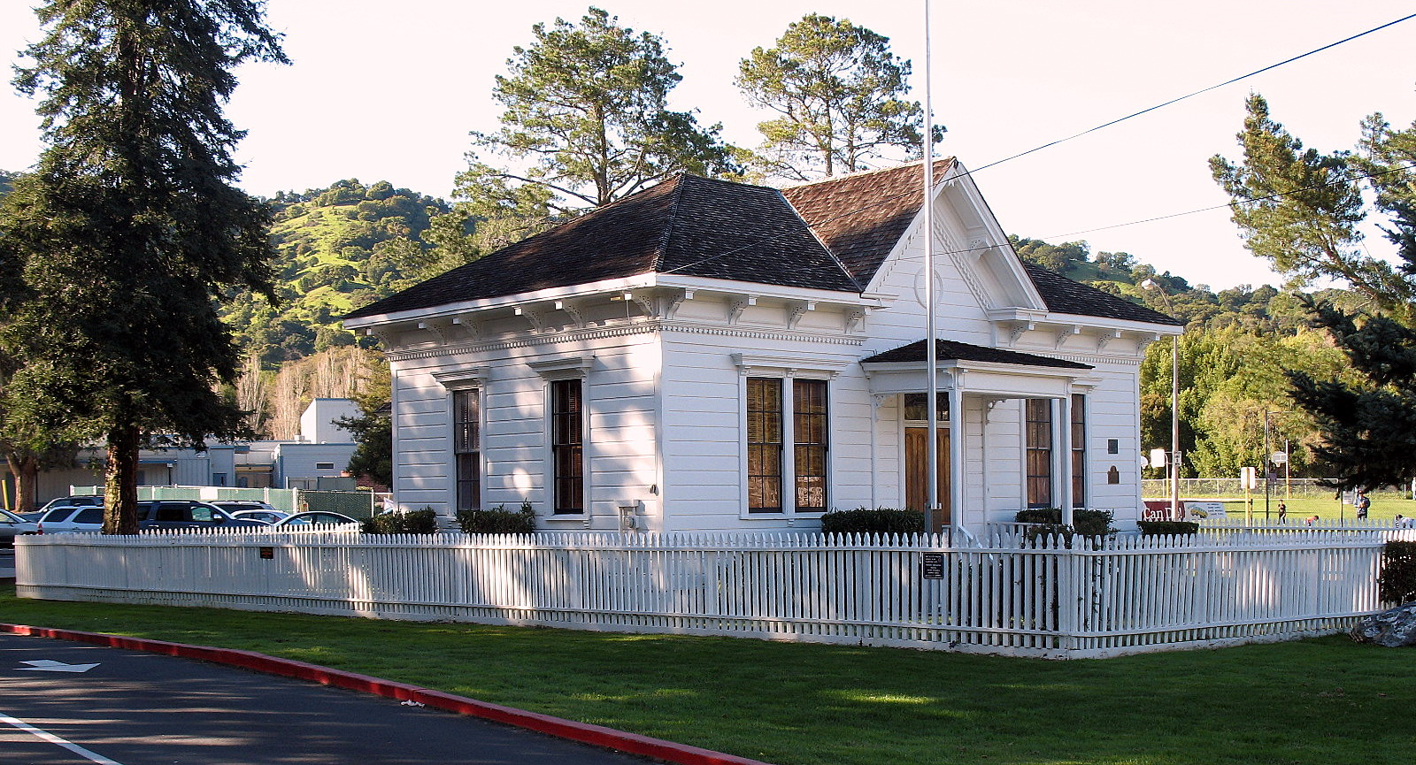 National Register of Historic Places in Marin County, California. Dixie Schoolhouse, 2255 Las Gallinas Ave., San Rafael, CA. Photographed from the east side of Las Gallinas Ave. between Elvia Ct. and Roundtree Blvd.